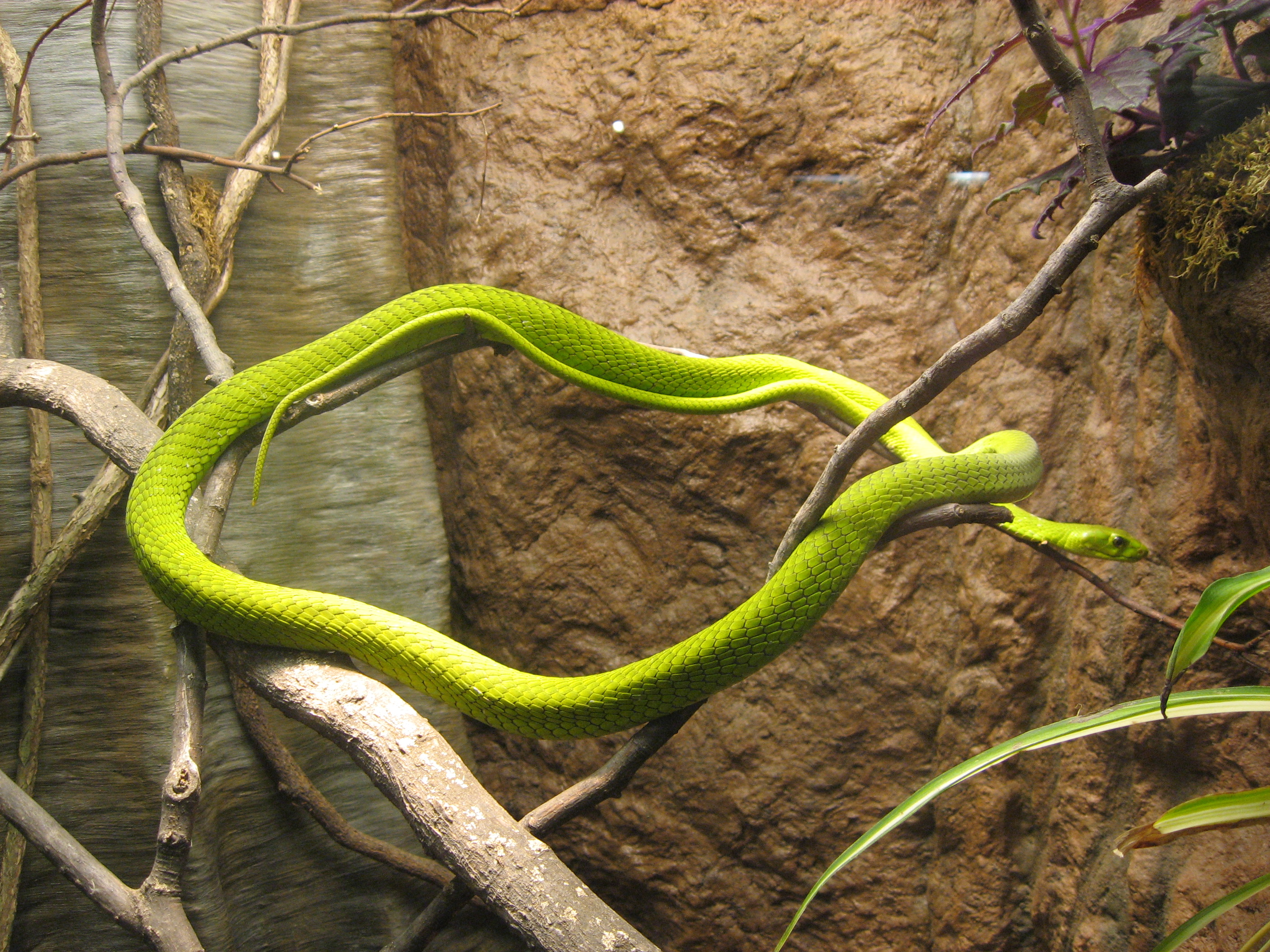 Eastern green mamba (Dendroaspis angusticeps).